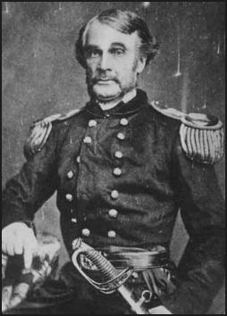 Photograph of Brevet Brigadier General Edmund Brooke Alexander.